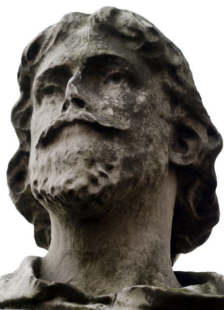 Dilapidated de la Pole The statue of William de la Pole at Hull's Pier has certainly seen better days! De la Pole was a wealthy 14th. Century merchant in Hull.